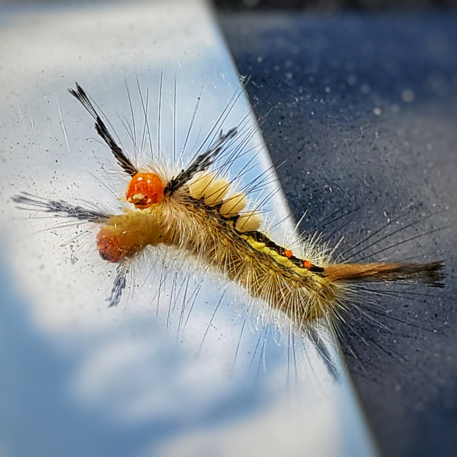 Orgyia leucostigma in Pupae stage